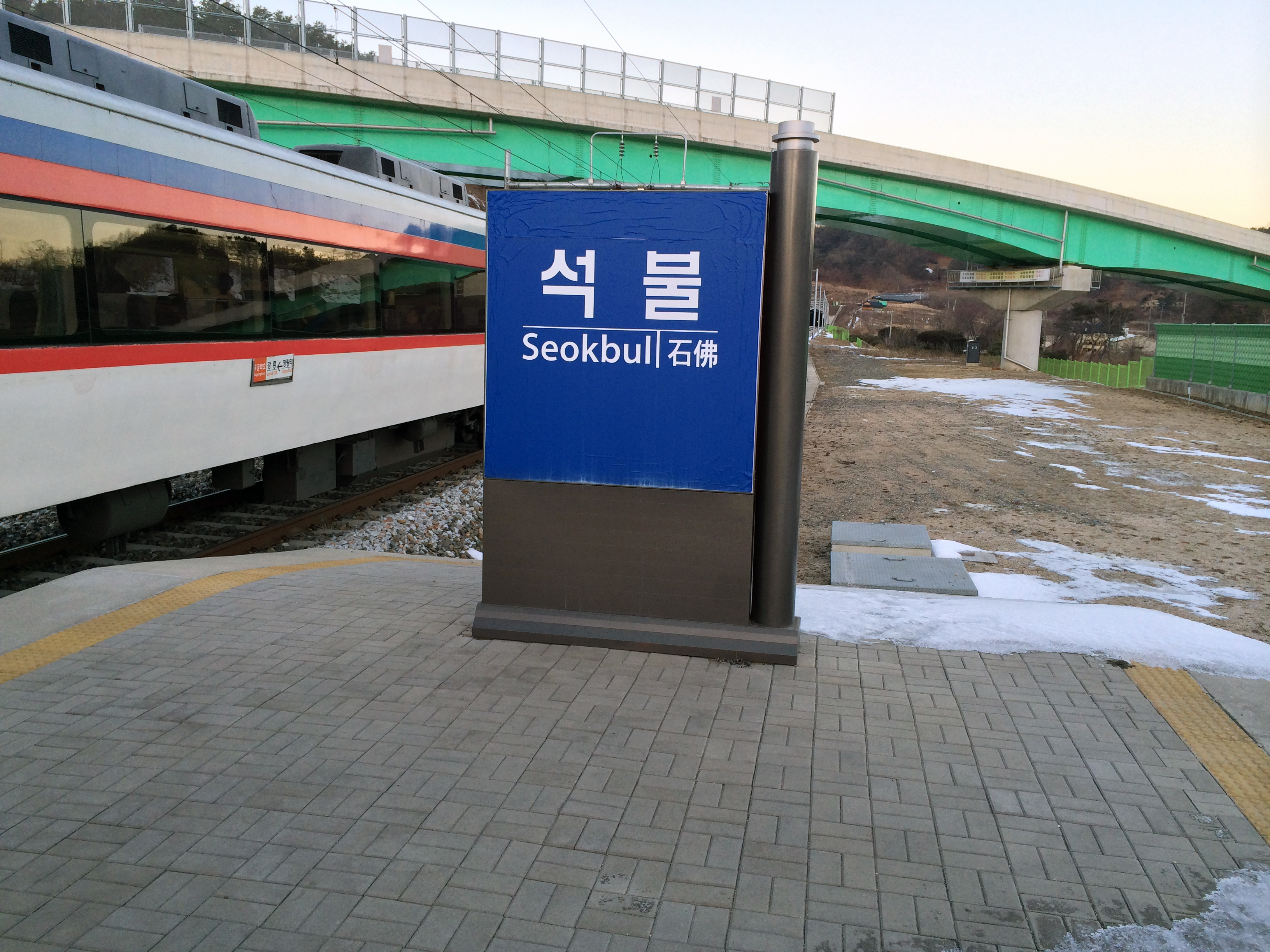 Running in board of Seokbul Station in the point of the platform